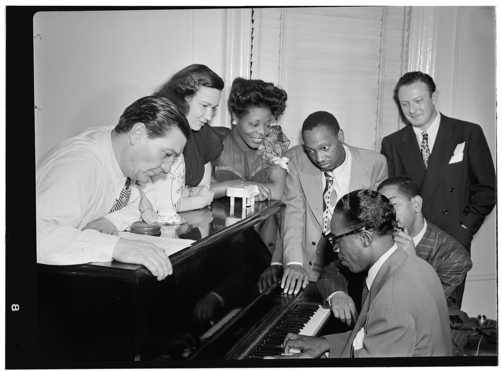 Jack Teagarden, Dixie Bailey, Mary Lou Williams, Tadd Dameron, Hank Jones, Dizzy Gillespie, Milt Orent. In Mary Lou Williams' apartment, NYC, ca. August 1947. Photography by William P. Gottlieb.